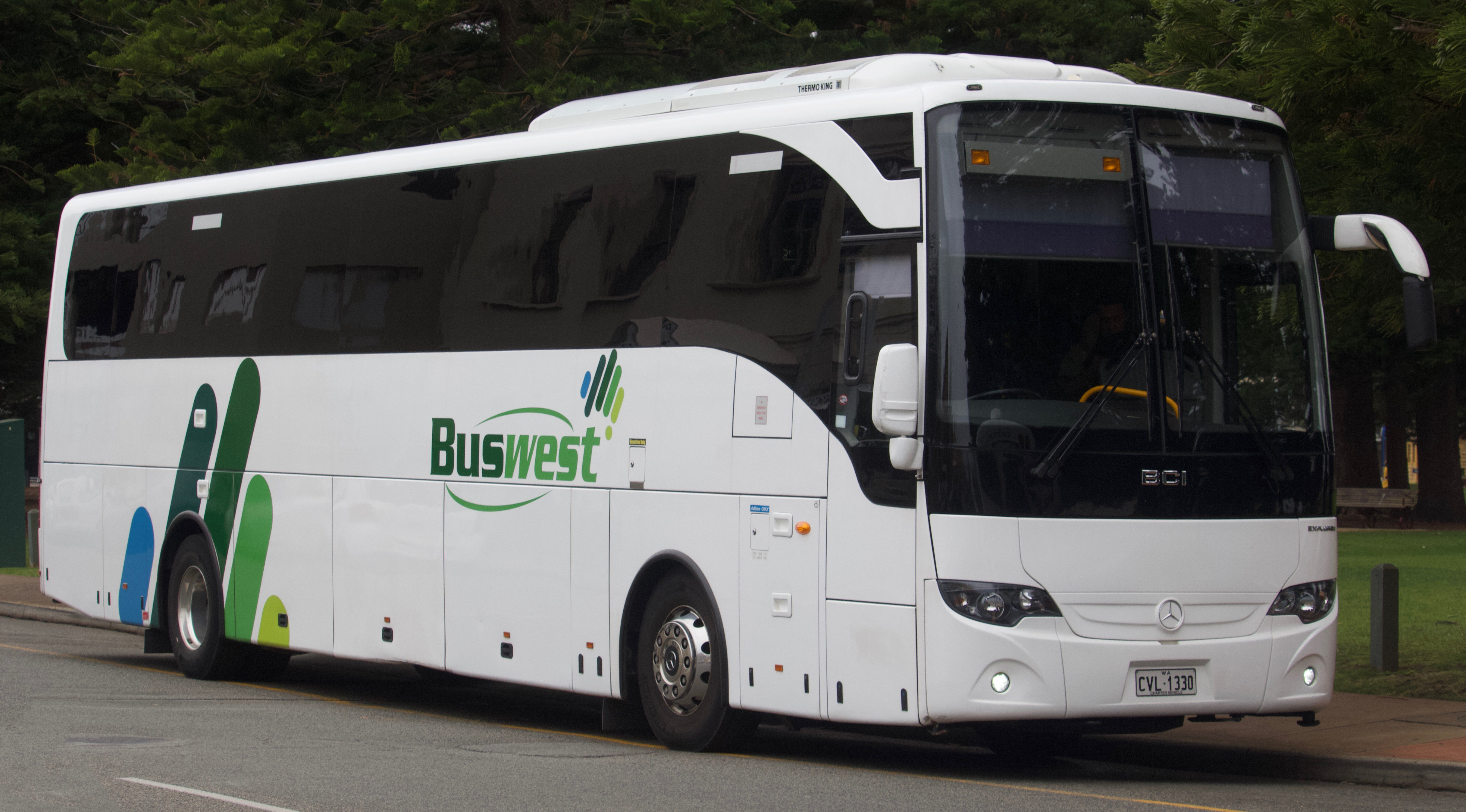 BCI bodied Mercedes-Benz OC 500 RF BusWest livered.